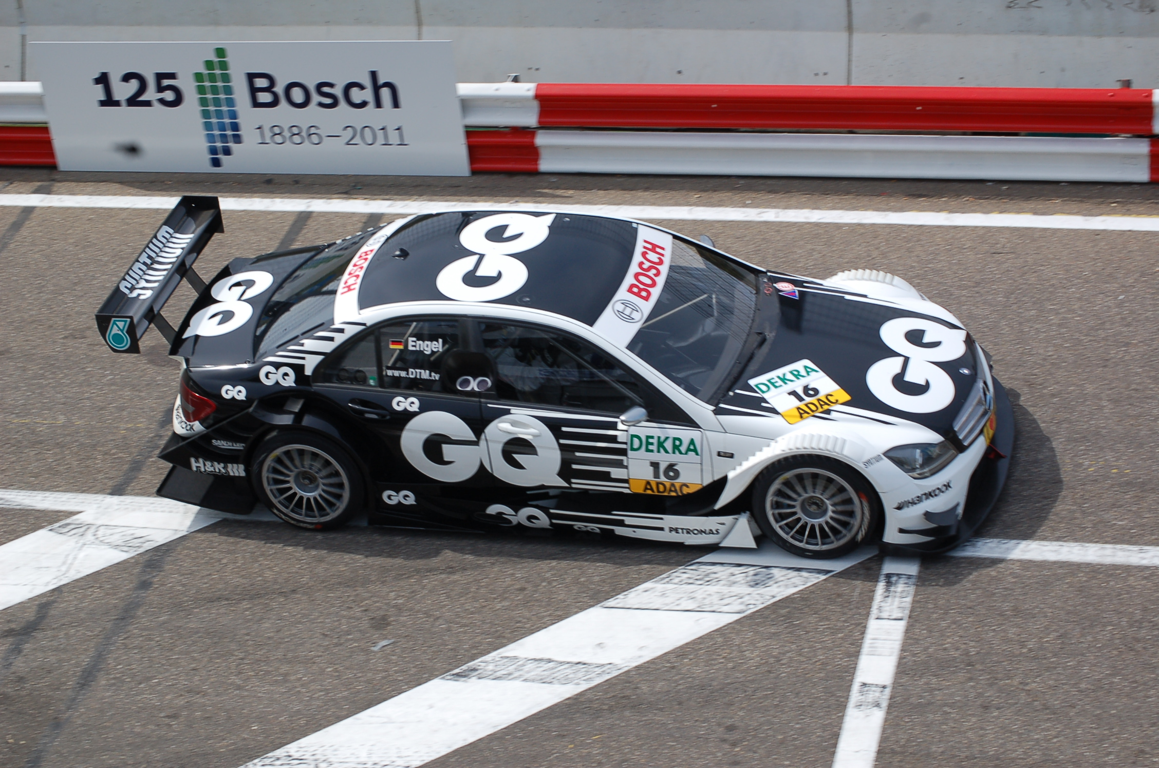 Maro Engel's DTM-Car 2011